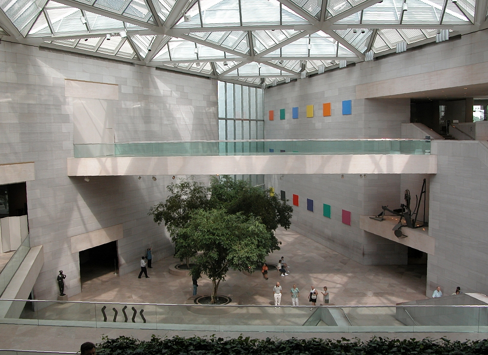 National Gallery of Art, East Building, Washington D.C., USA